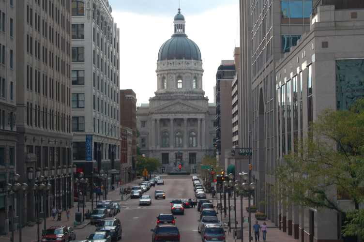 Indiana State House in Indianapolis, Indiana taken from Monument Circle